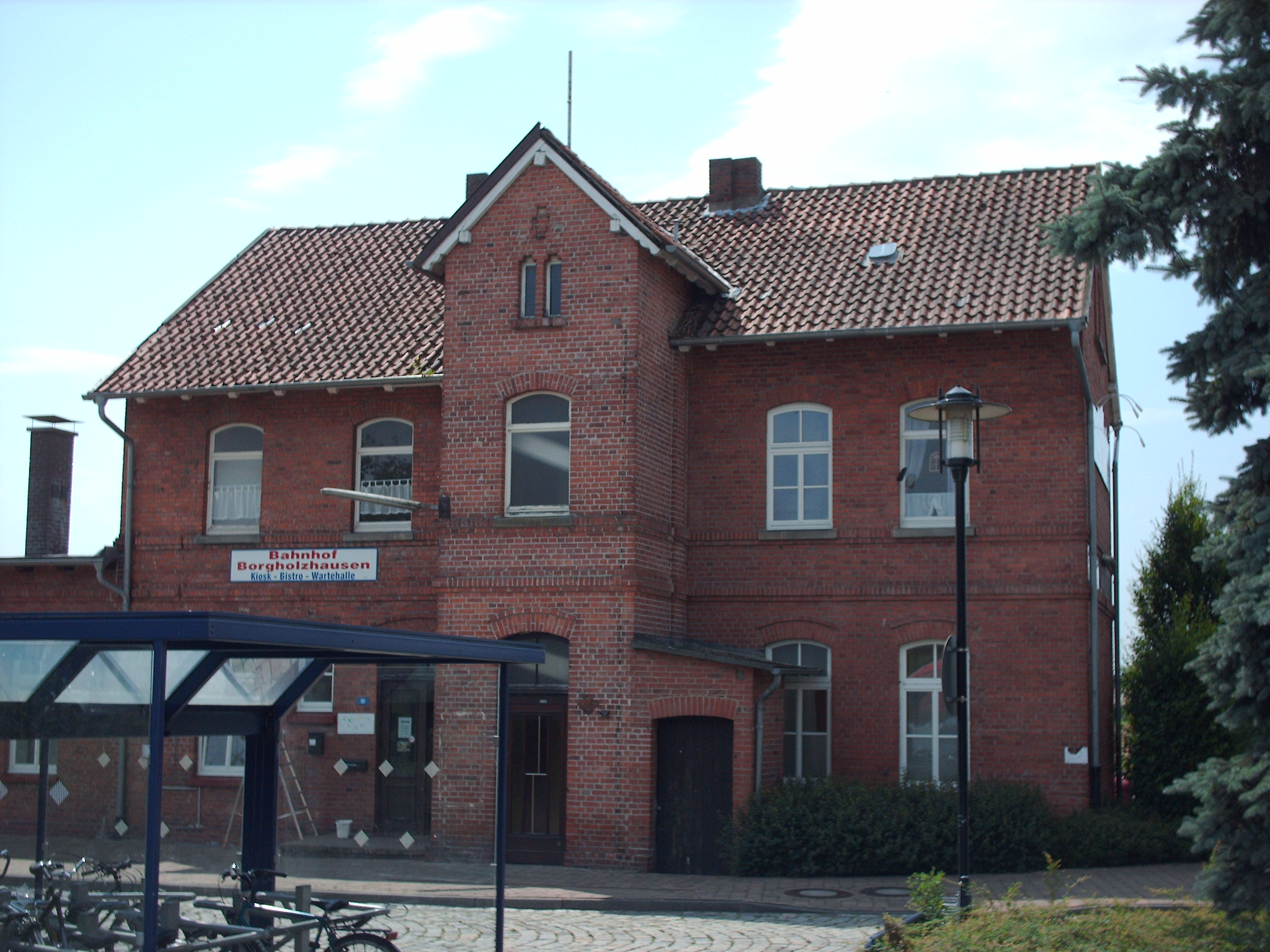 Borgholzhausen station, Borgholzhausen, Germany check usage